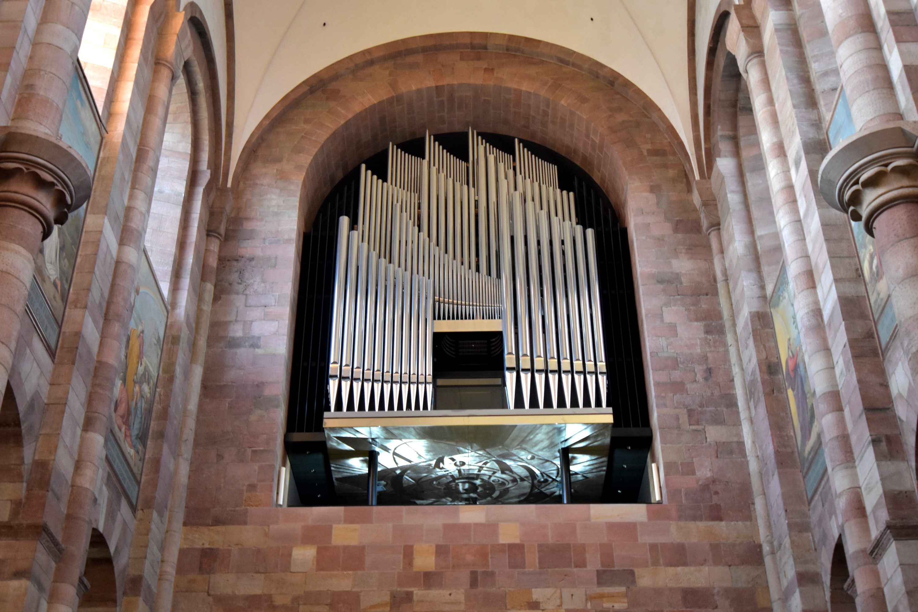 Speyer Cathedral